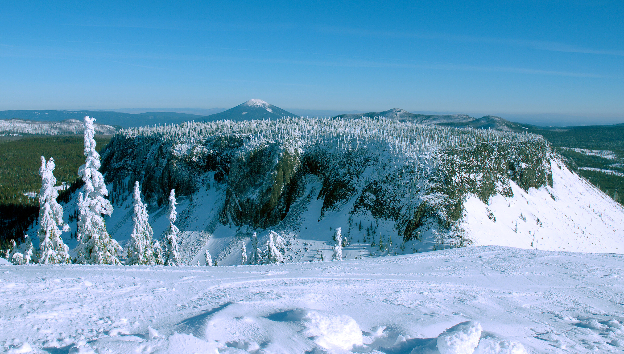 Here is a view of Hayrick Butte from the top of Hoodoo Ski area.